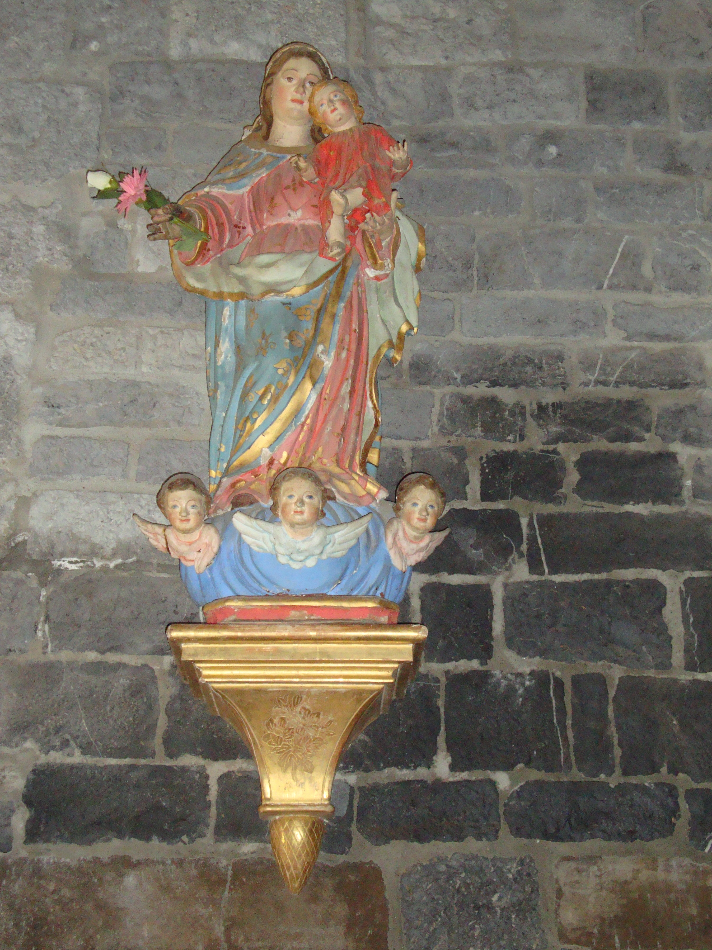 Sunhar (Lichans-Sunhar, Pyrénées-Atlantiques, Fr) statue Madonna and Child